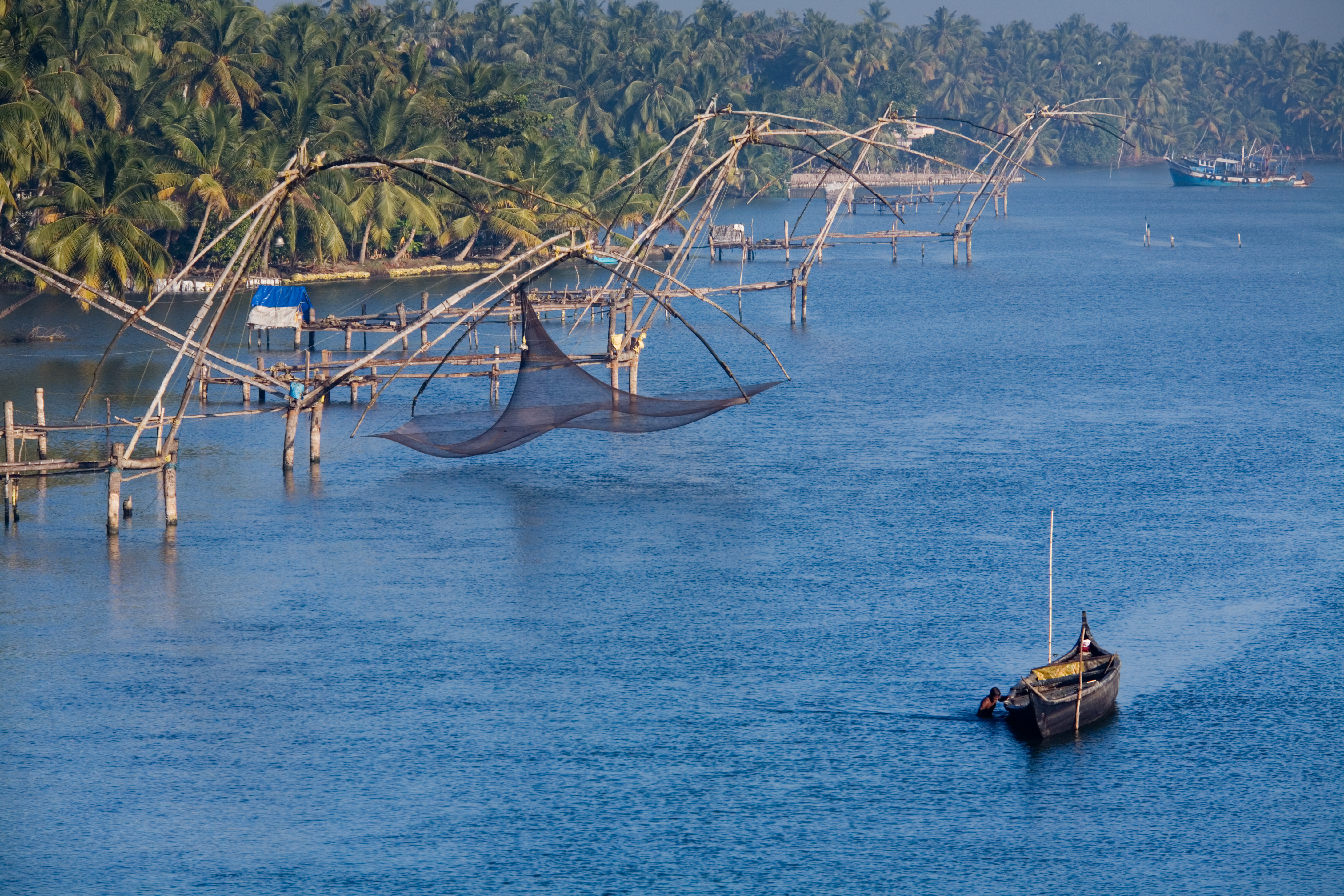 Fishing nets in Fort Cochin, India